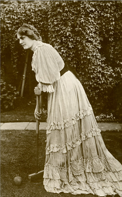 A 1906 photograph of the actress, from the UBC Library Digital Collections